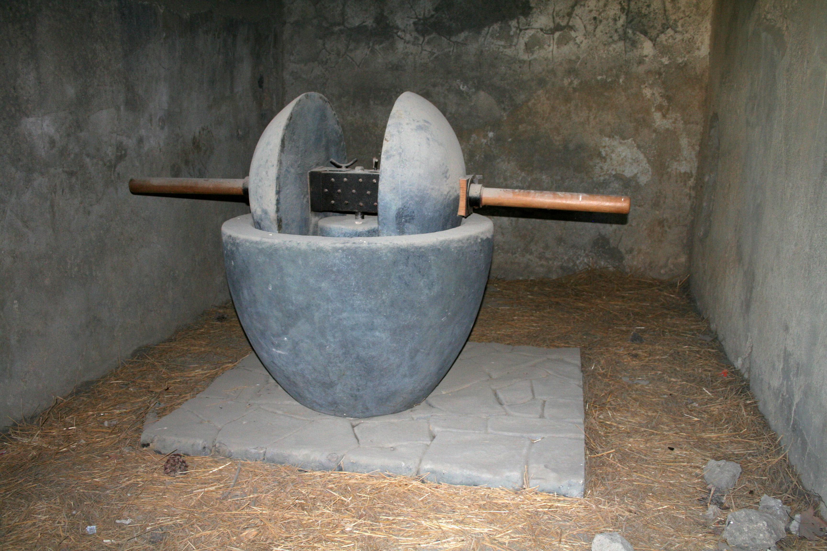 Olive mill in Pompeji / Italy